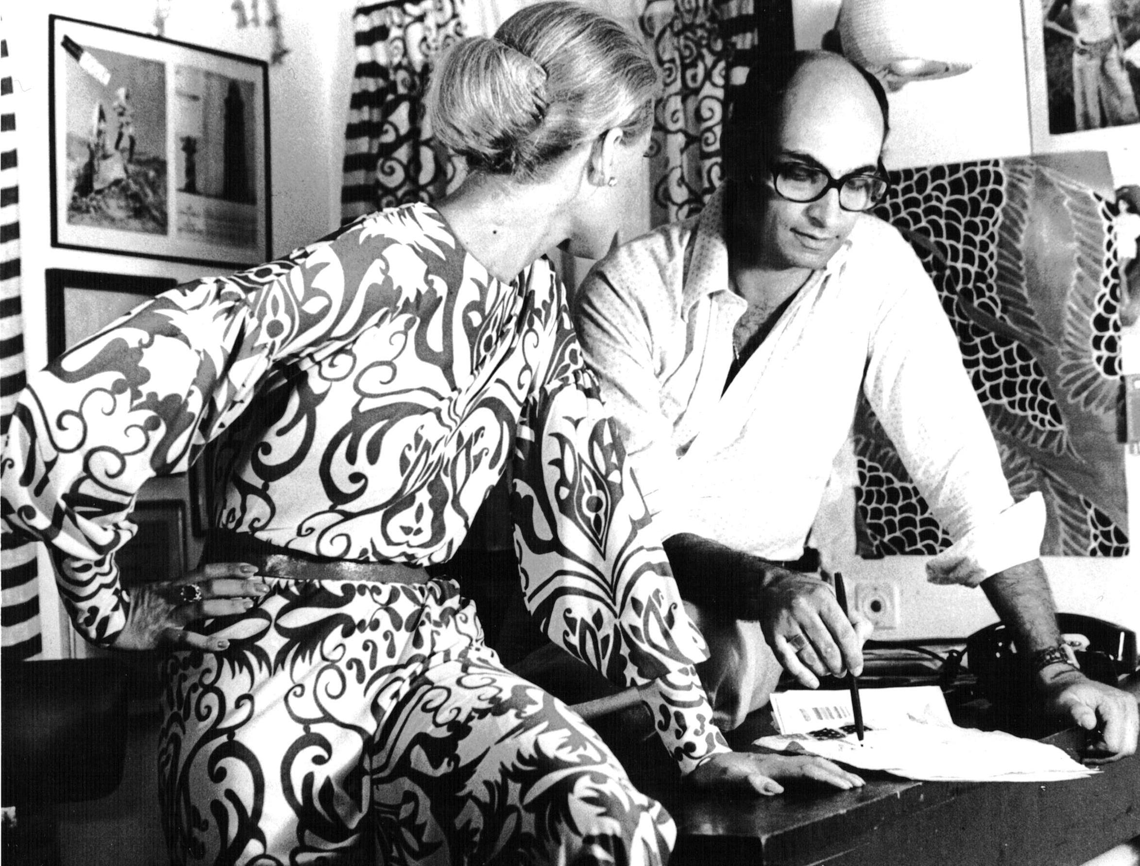 Jerry Melitz studio.